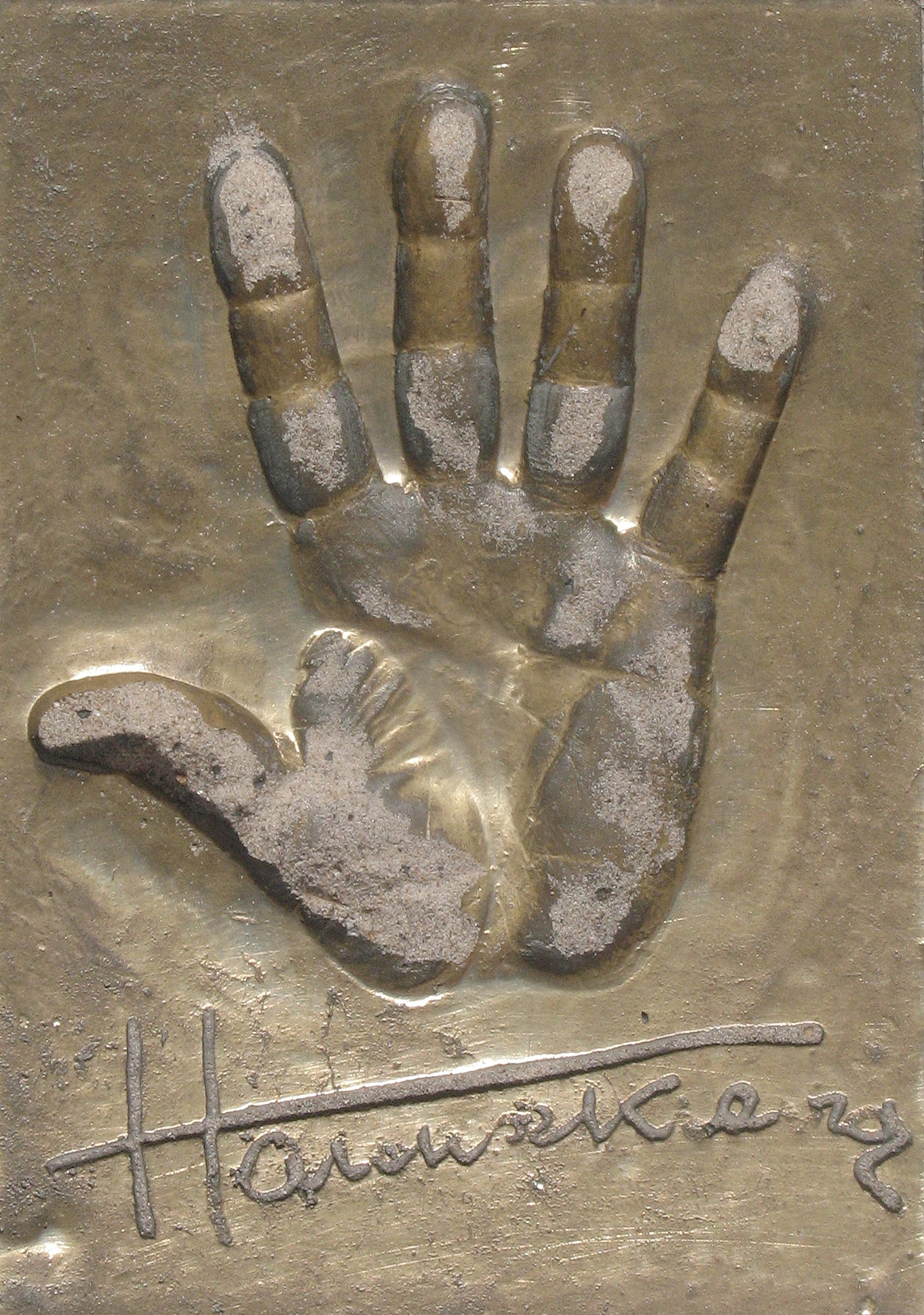 Adam Hanuszkiewicz - handprint and signature in Międzyzdroje.